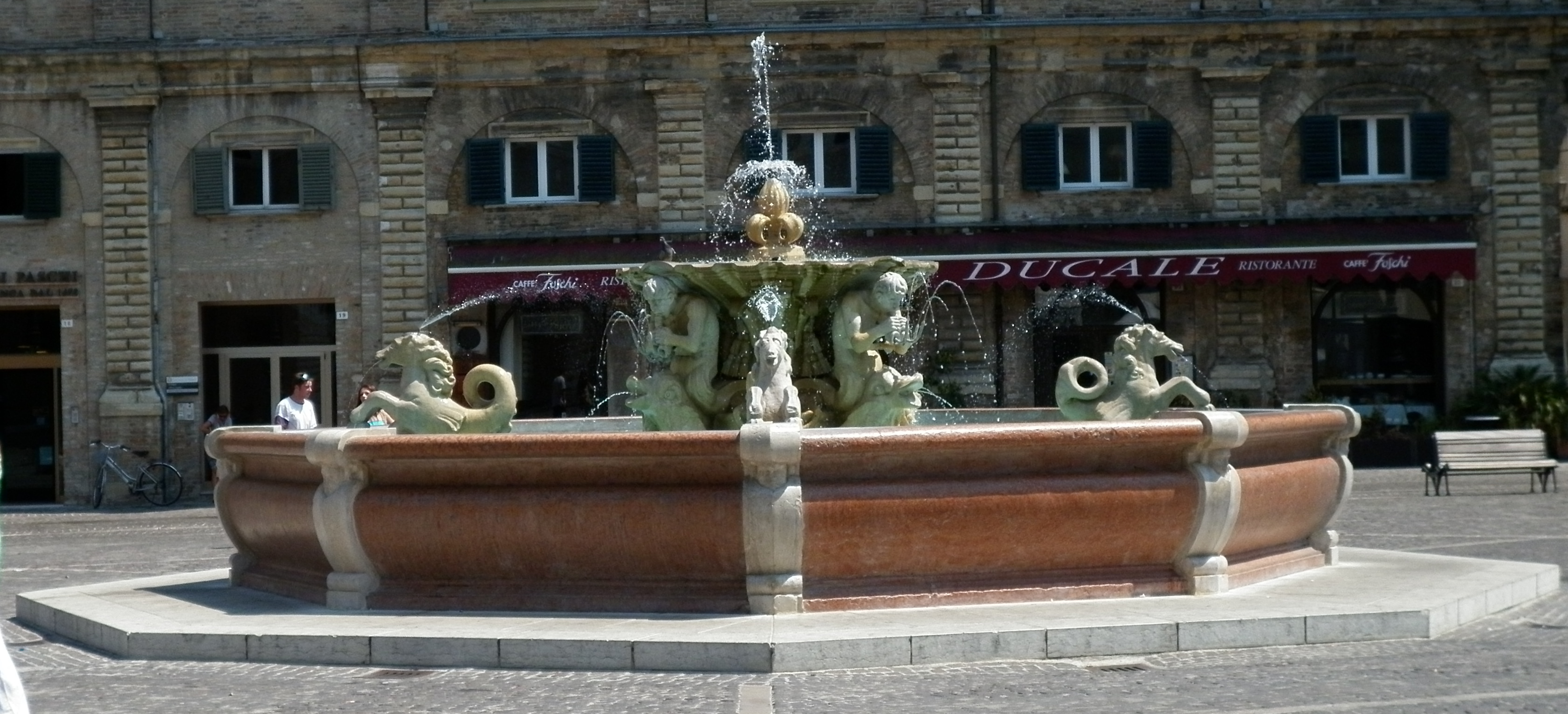 The Fountain of Piazza del Popolo